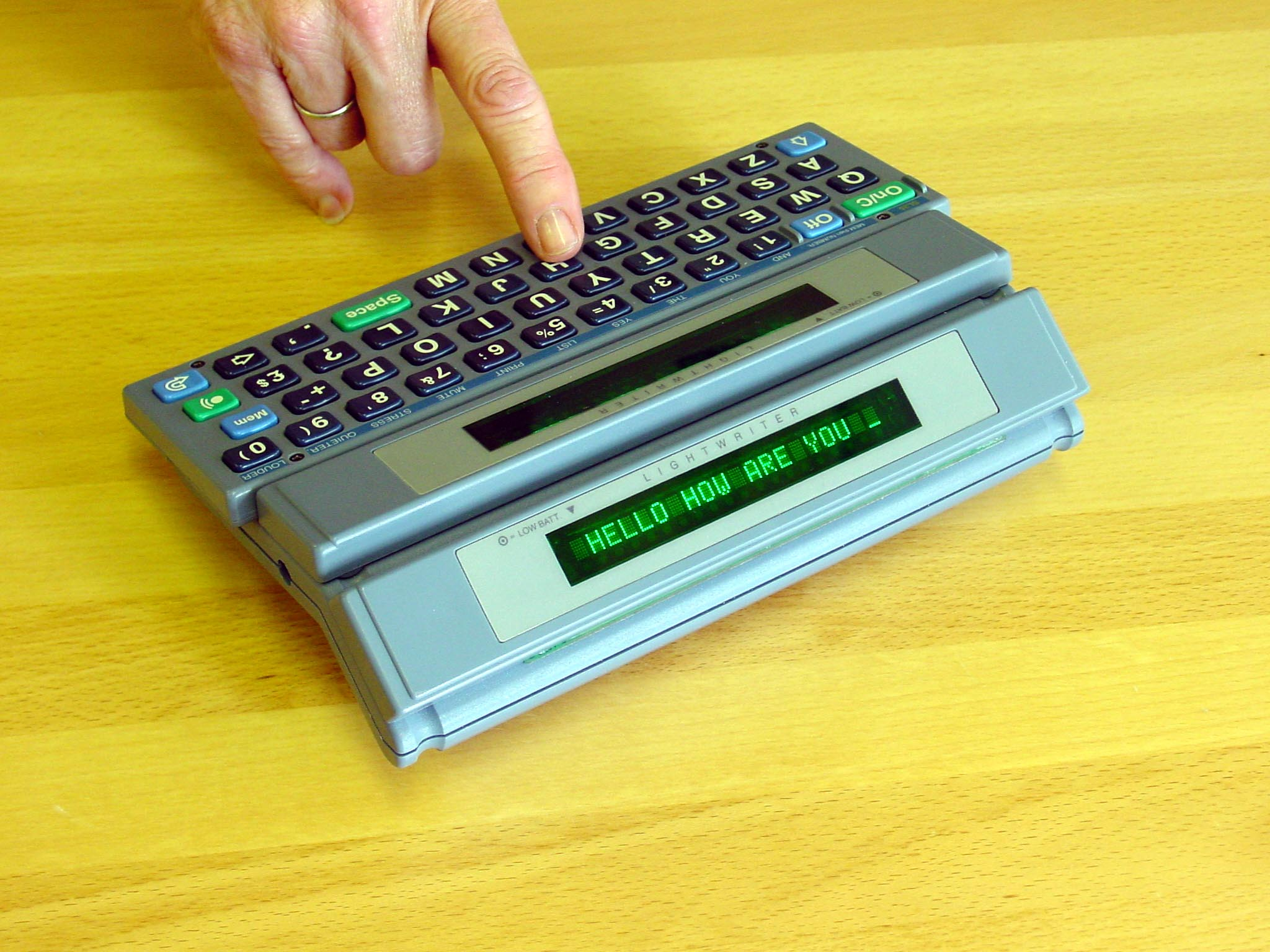 SL 35 Lightwriter communication aid